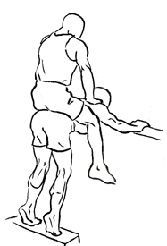 an exercise of calves